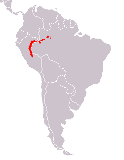 Distribution of C. calvus.